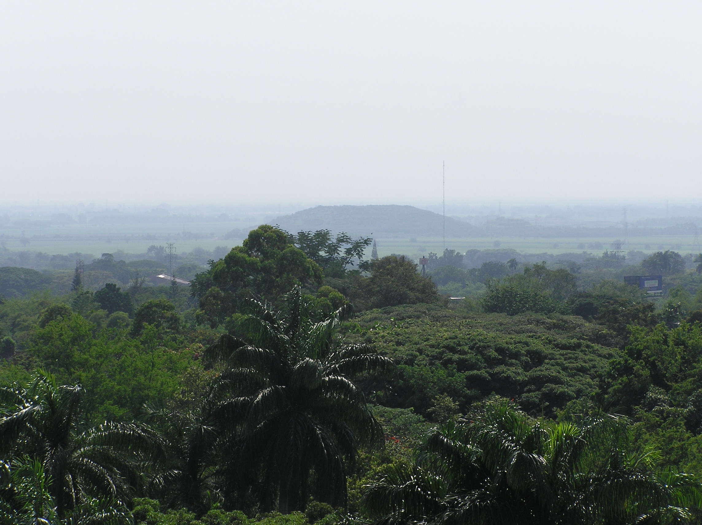 Basurero de Navarro, NAvarro's pitfield